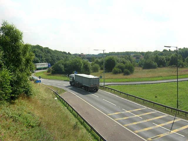 Roundabout the end of the M58. Taken looking SE from the footbridge crossing the Orrell end of the M58, this roundabout forms part of a gigantic cloverleaf interchange with the M6, whose northbound traffic you can see in the distance.